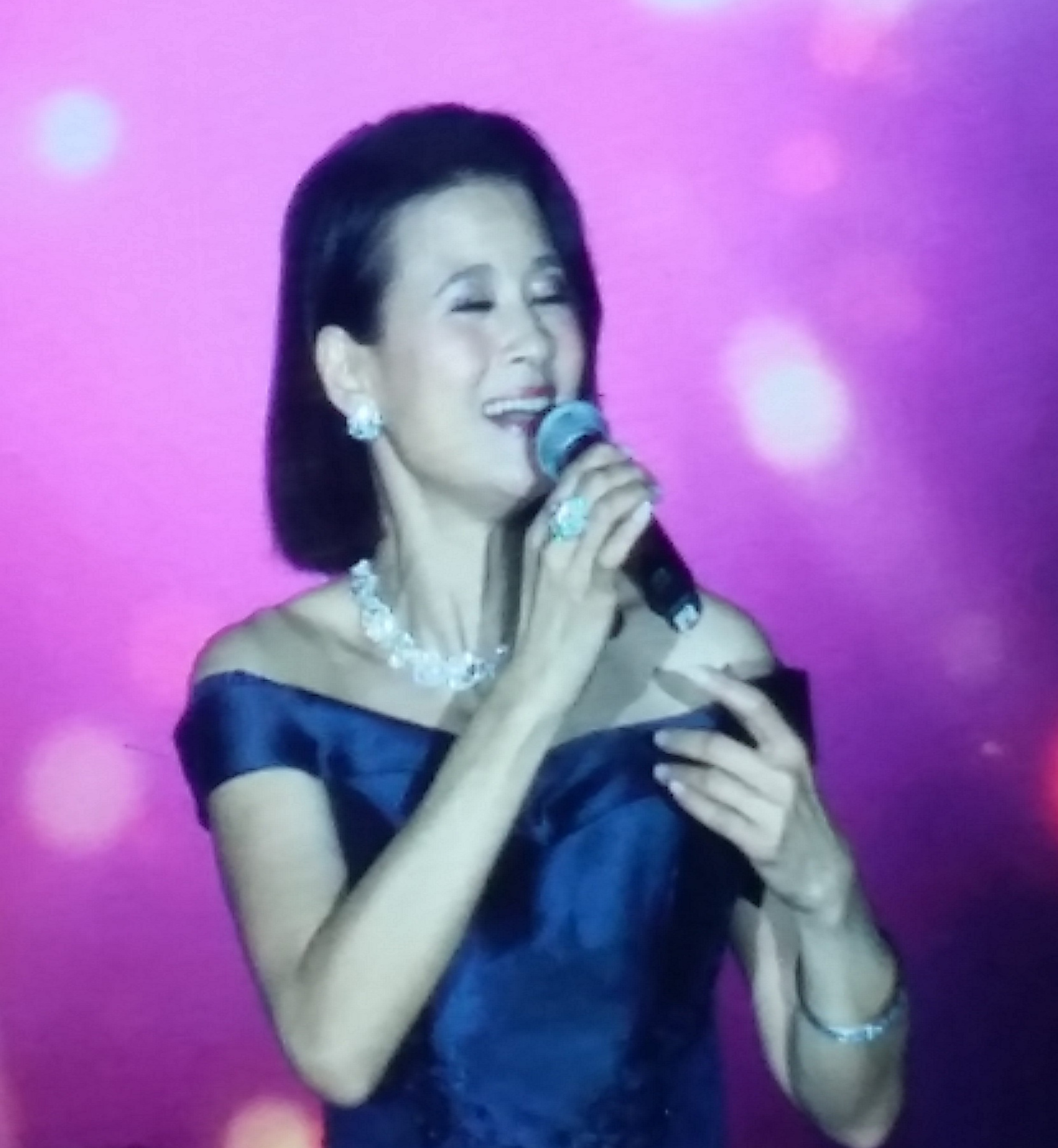 Eva Lai is in AsiaWorld-Expo